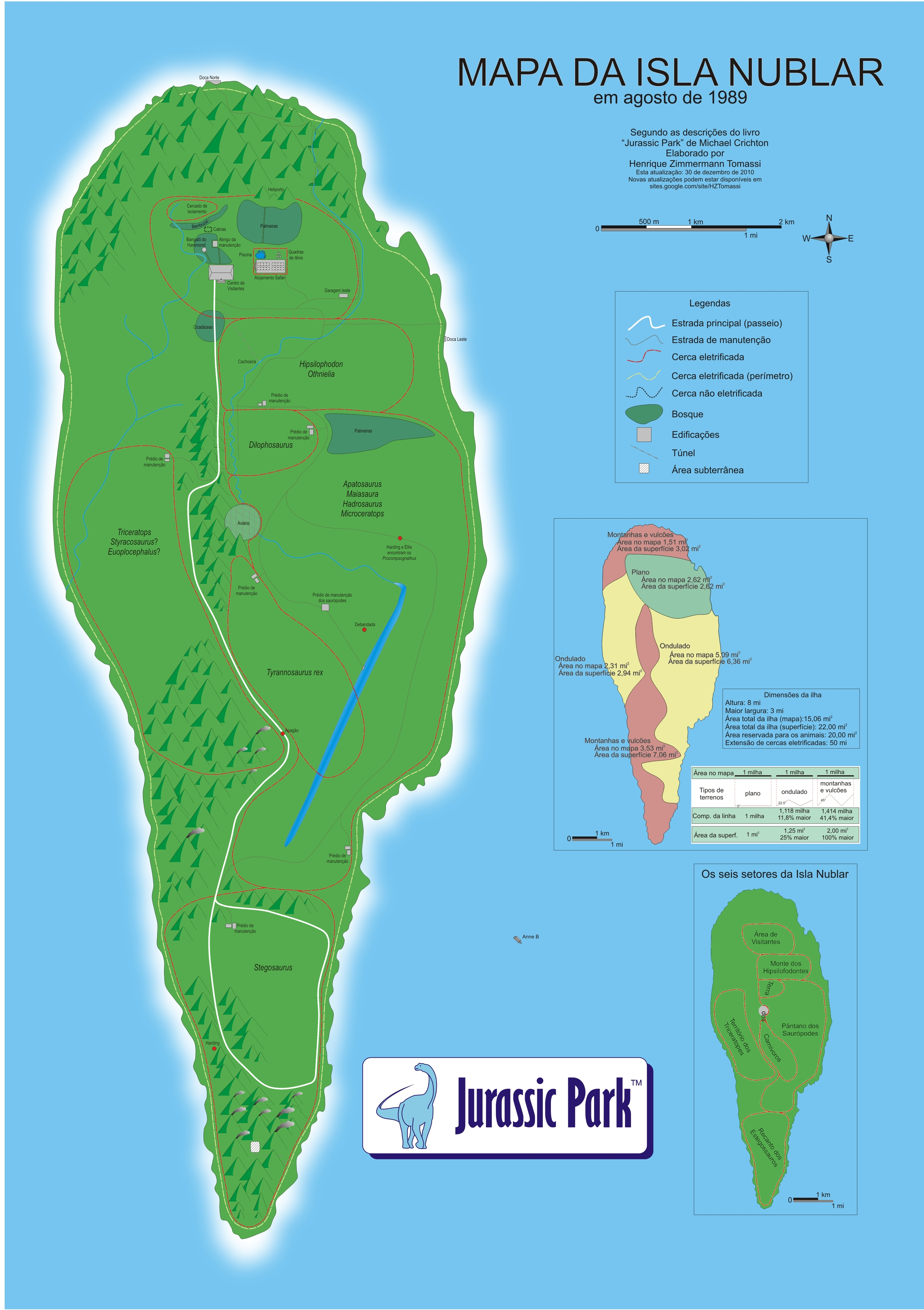 Isla Nublar map, based on Michael Crichton's novel Jurassic Park. New updates may be available at author's webpage